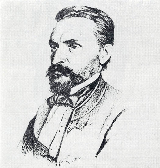 Albert Pálffy litography